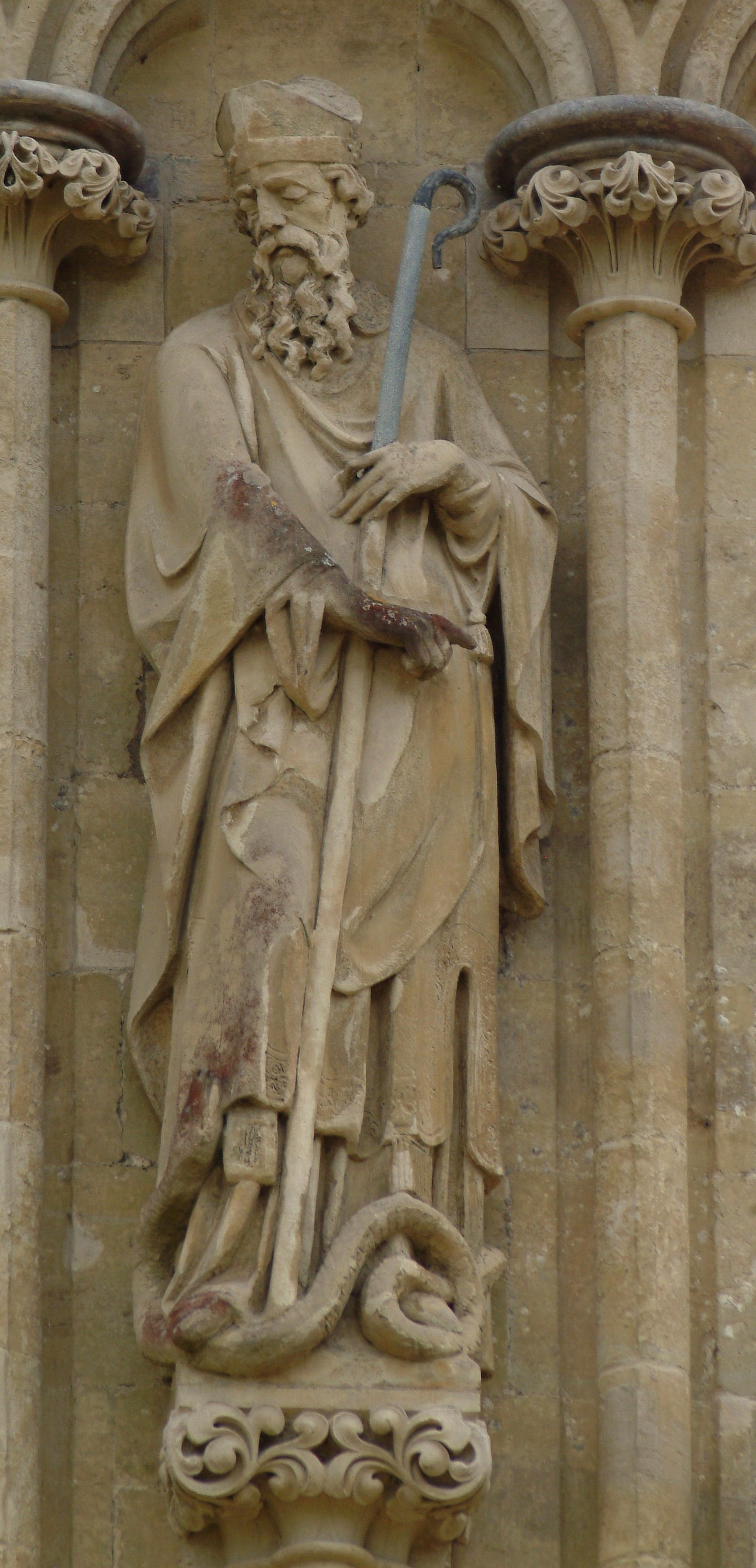 Statue of St Patrick on the West Front of Salisbury Cathedral, UK